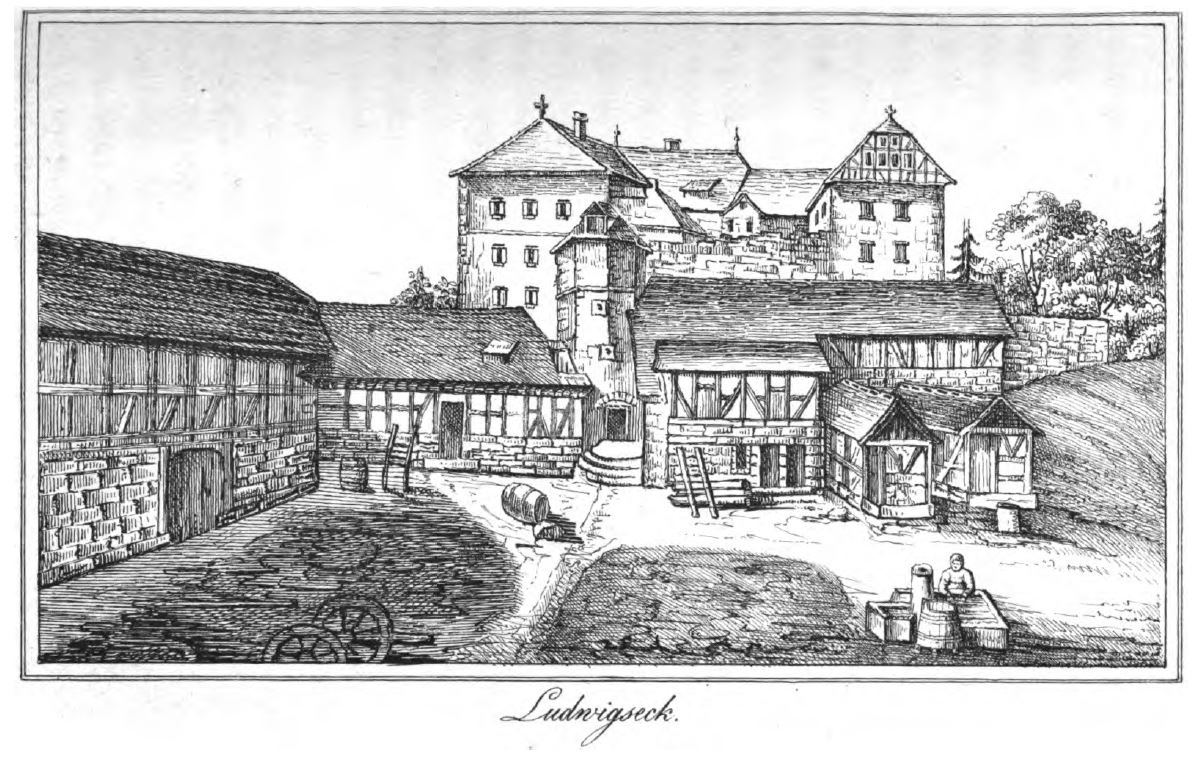 Lithographic reprint of the castle Ludwigseck, before 1839; city: Ludwigsau, county of Hersfeld-Rotenburg (Hesse, Germany)